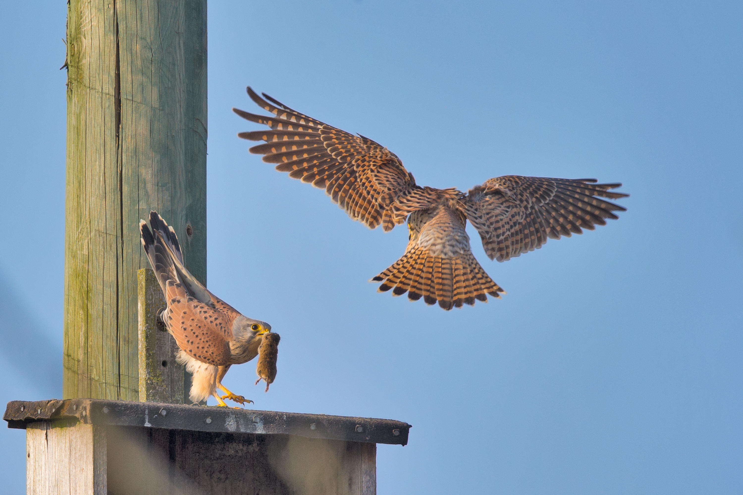 A male Common kestrelis presenting a mice to the female bird